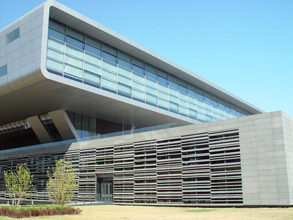 Phase II Building of National Library of China, from Southeast